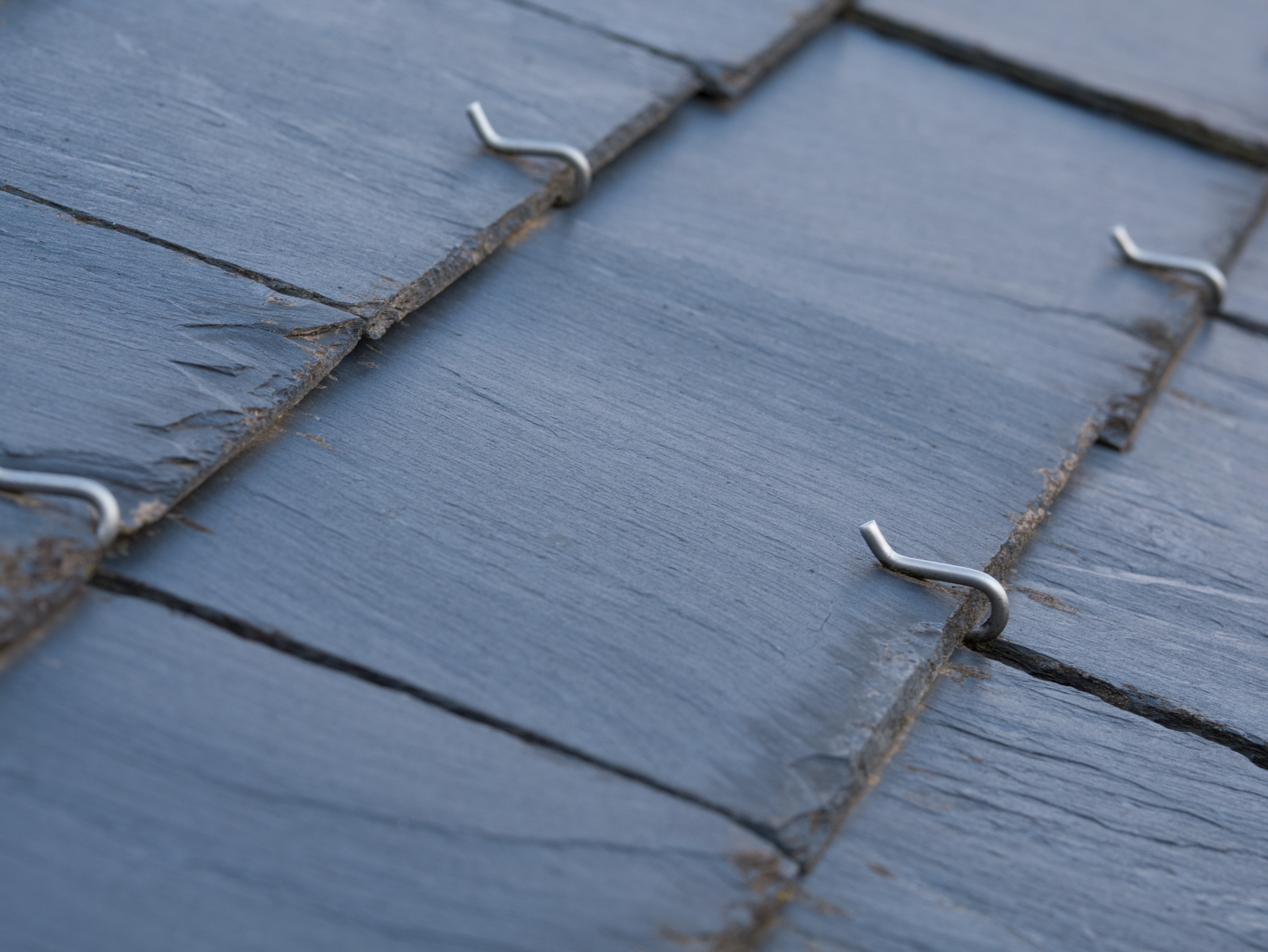 Slate roof fixed using brackets. Argèles-Gazost, Hautes-Pyrénées, France